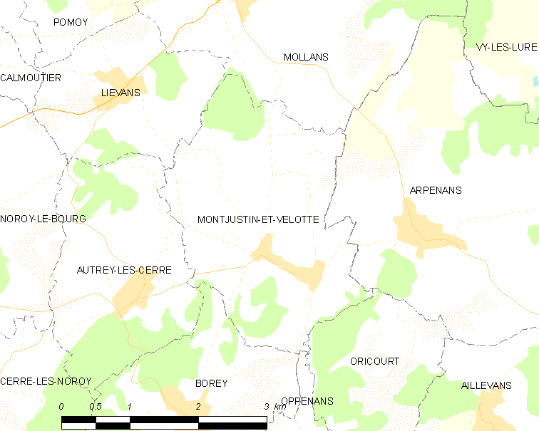 Map of French municipality